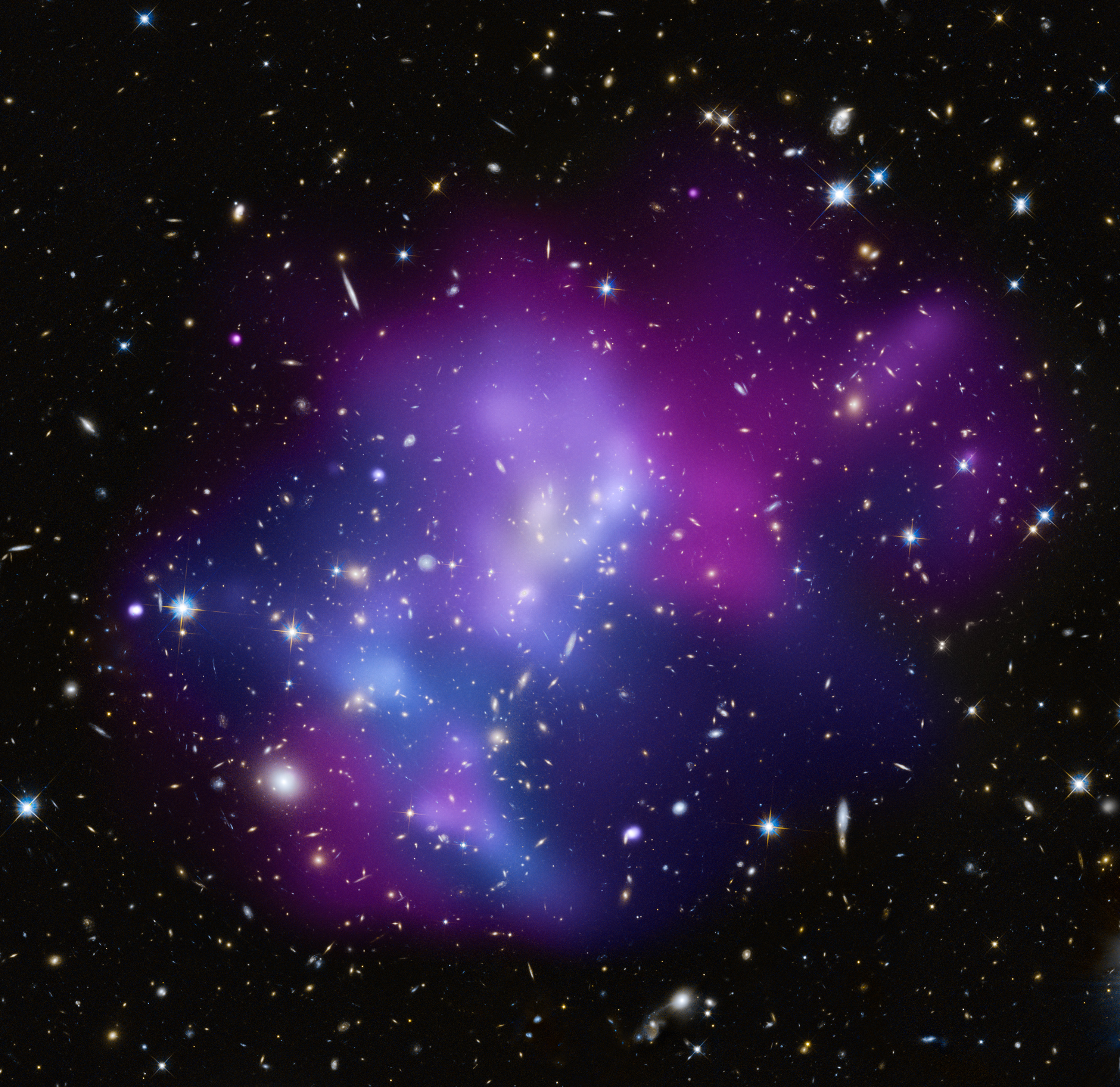 This composite image shows the massive galaxy cluster MACS J0717.5+3745 (MACS J0717, for short), where four separate galaxy clusters have been involved in a collision — the first time such a phenomenon has been documented. Hot gas is shown in an image from NASA's Chandra X-ray Observatory, and galaxies are shown in an optical image from the NASA/ESA Hubble Space Telescope. The hot gas is colour-coded to show temperature, where the coolest gas is reddish purple, the hottest gas is blue, and the temperatures in between are purple. The repeated collisions in MACS J0717 are caused by a 13-million-light-year-long stream of galaxies, gas, and dark matter — known as a filament — pouring into a region already full of matter. A collision between the gas in two or more clusters causes the hot gas to slow down. However, the massive and compact galaxies do not slow down as much as the gas does, and so move ahead of it. Therefore, the speed and direction of each cluster's motion — perpendicular to the line of sight — can be estimated by studying the offset between the average position of the galaxies and the peak in the hot gas. MACS J0717 is located about 5.4 billion light-years from Earth. It is one of the most complex galaxy clusters ever seen. Other well-known clusters, like the Bullet Cluster and MACS J0025.4-1222, involve the collision of only two galaxy clusters and show much simpler geometry.